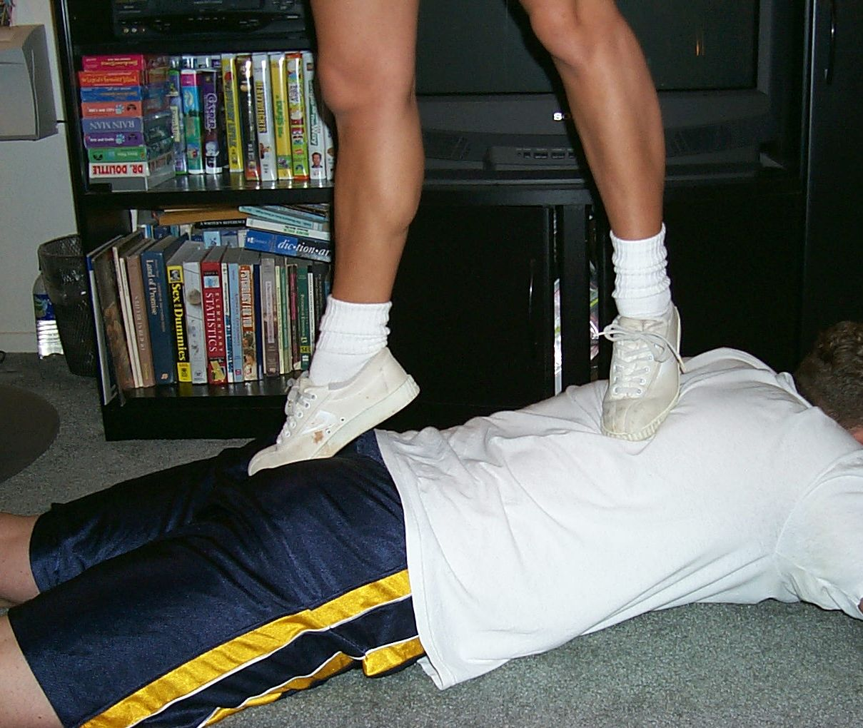 Eve wearing white Tretorn sneakers while trampling male